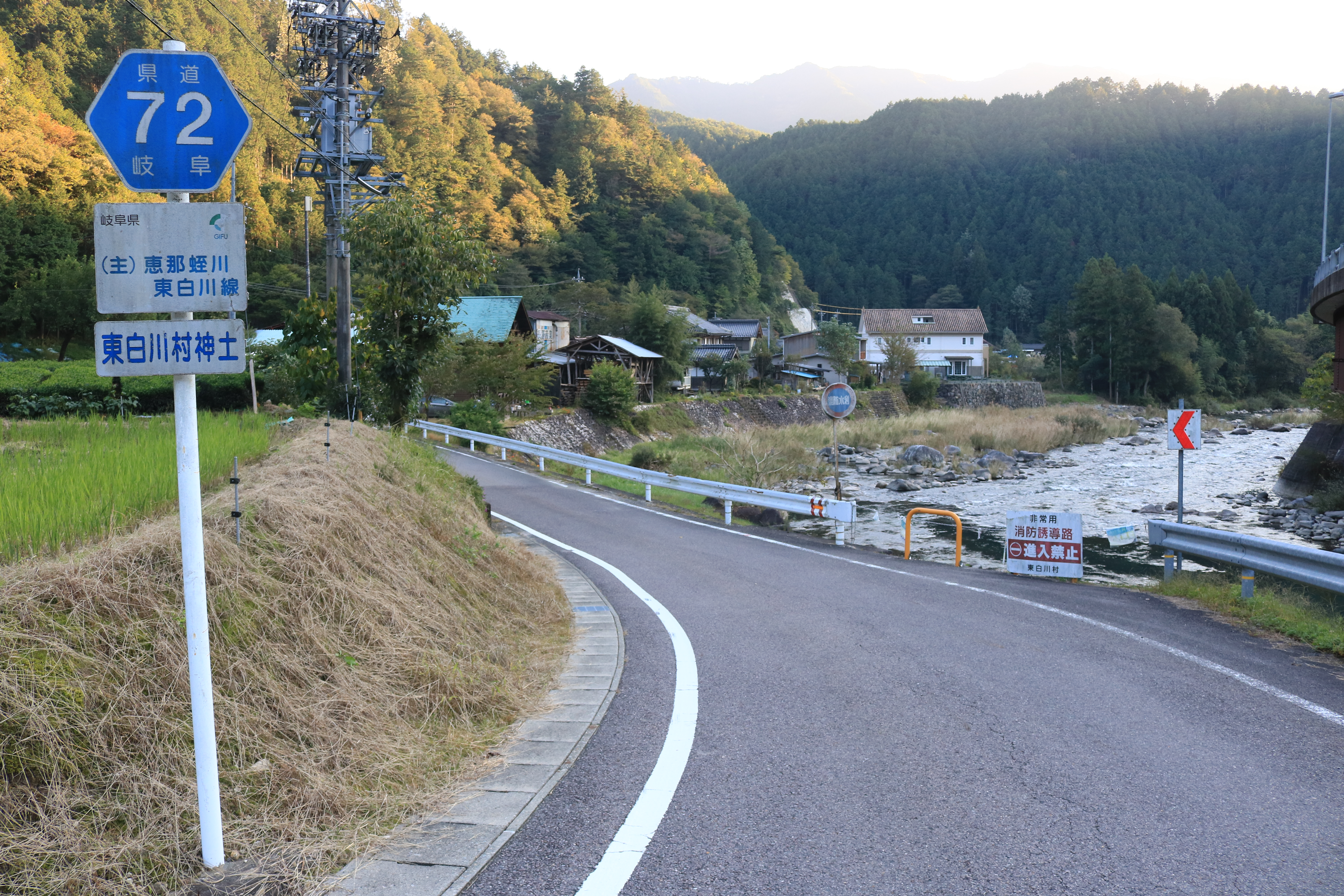 Gifu Prefectural Road Route 72 in Kando, Higashishirakawa, Gifu prefecture, Japan.